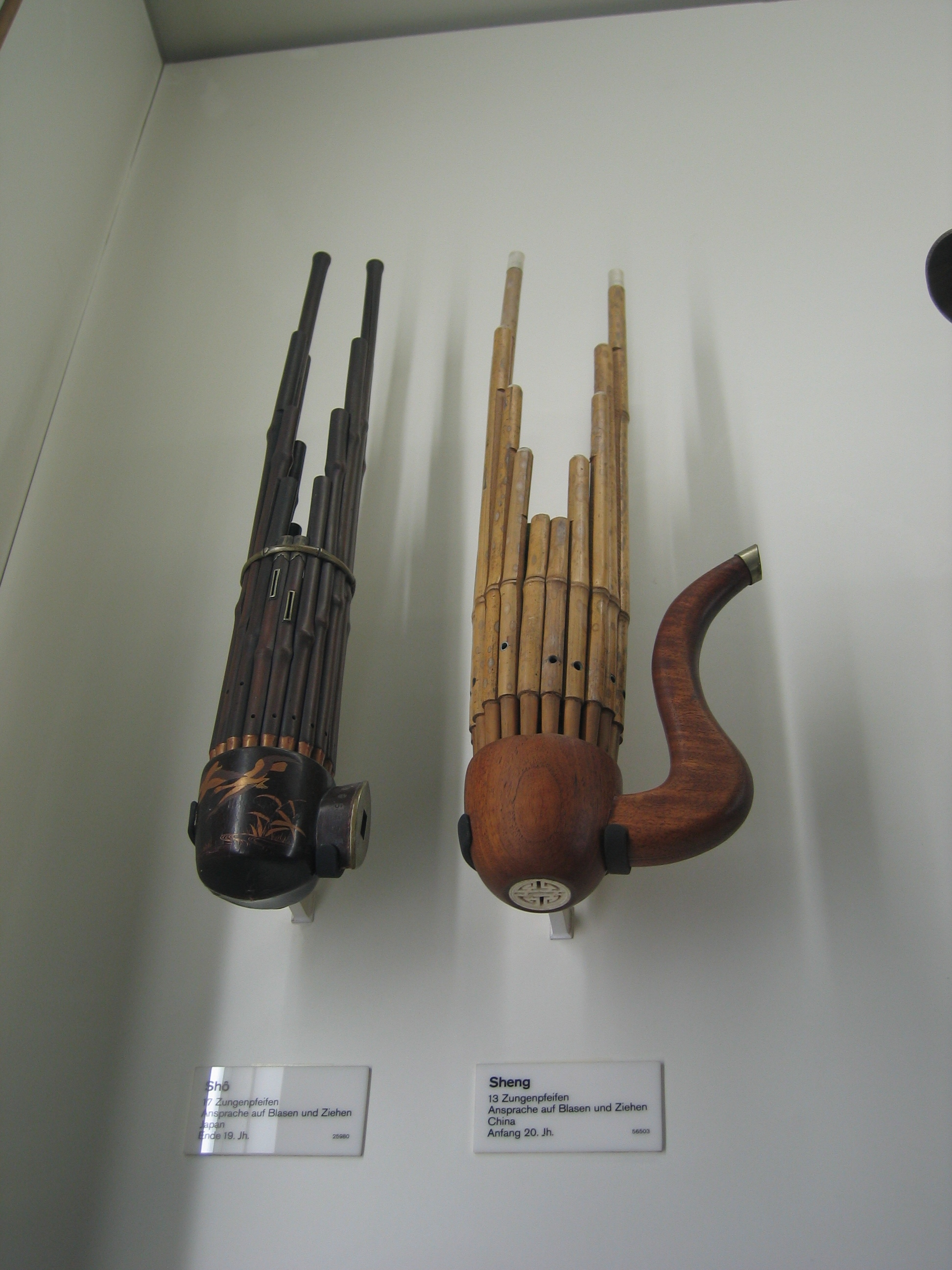 Deutsches Museum in Munich: Chinese flutes. Left(Shō ) from the end of the 19th century and right(Shēng ) from the beginning of the 20th century.